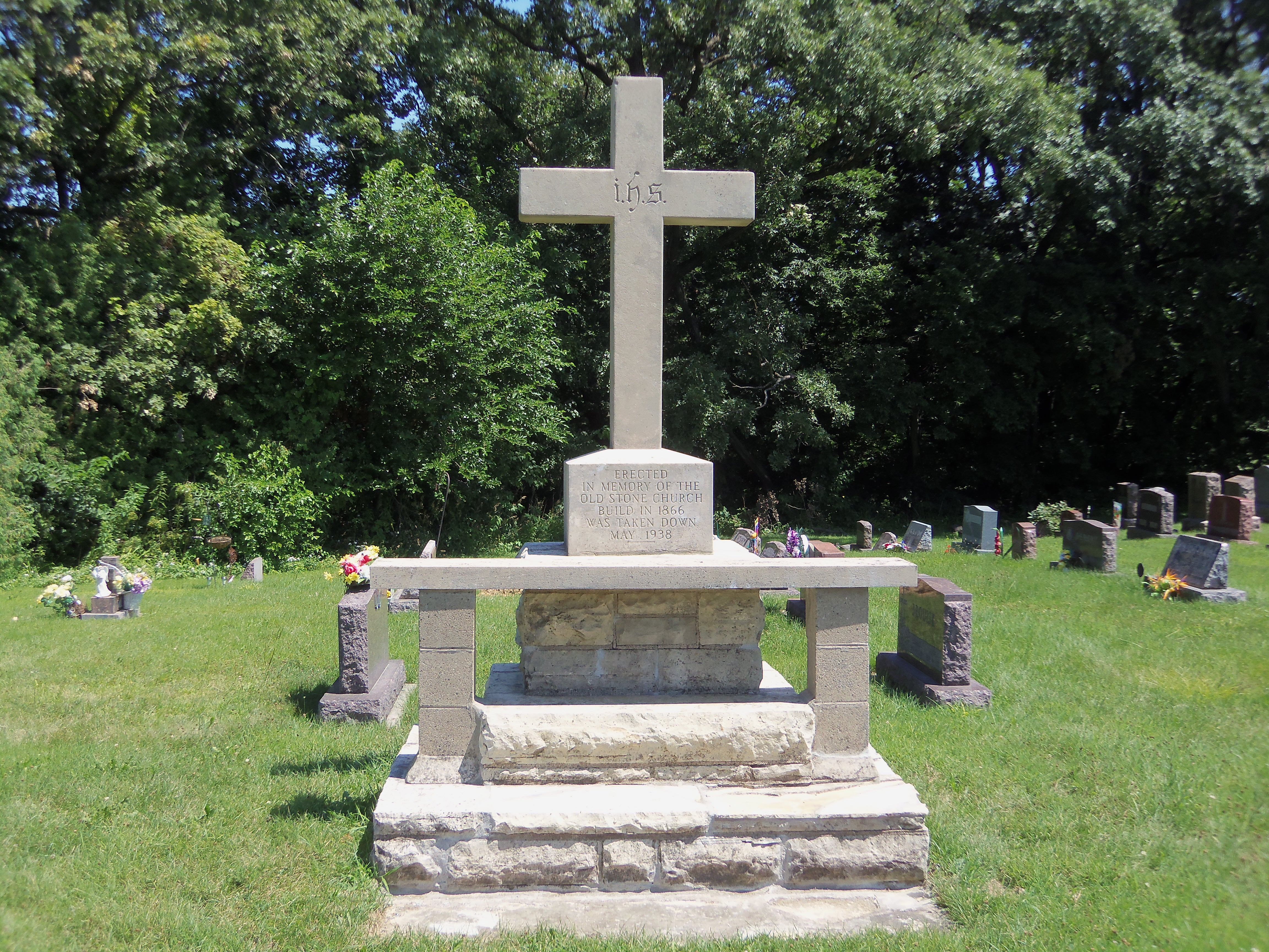 Memorial to the former Saints Peter and Paul Catholic church in rural Solon, Iowa. It was built in the 1860s and used until the present church building was built across the road in 1916. The church building was torn down in 1938 when this memorial was built.